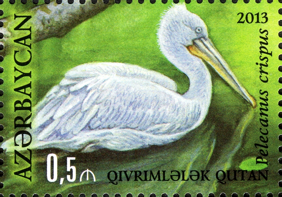 Hirkan National Park. N 1128 - 50 qapik. Dalmatian pelican (Pelecanus crispus)